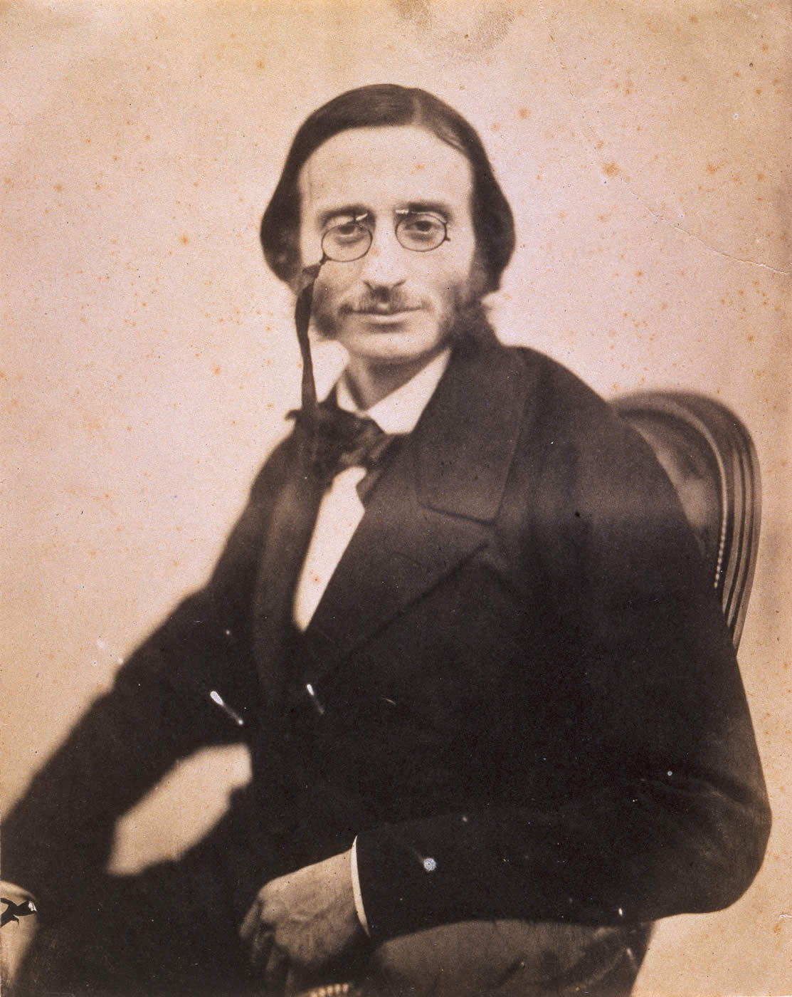 Photography of Jacques Offenbach by Félix Nadar